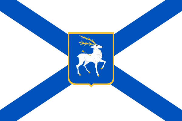 Ensign of the Don Republic Navy